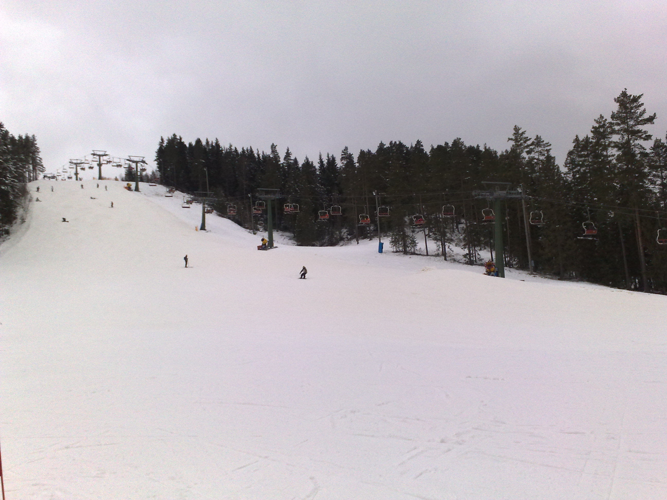 Picture from the north slope, with the north ski lift. A four seated ski lift at Isaberg ski resort, Sweden.